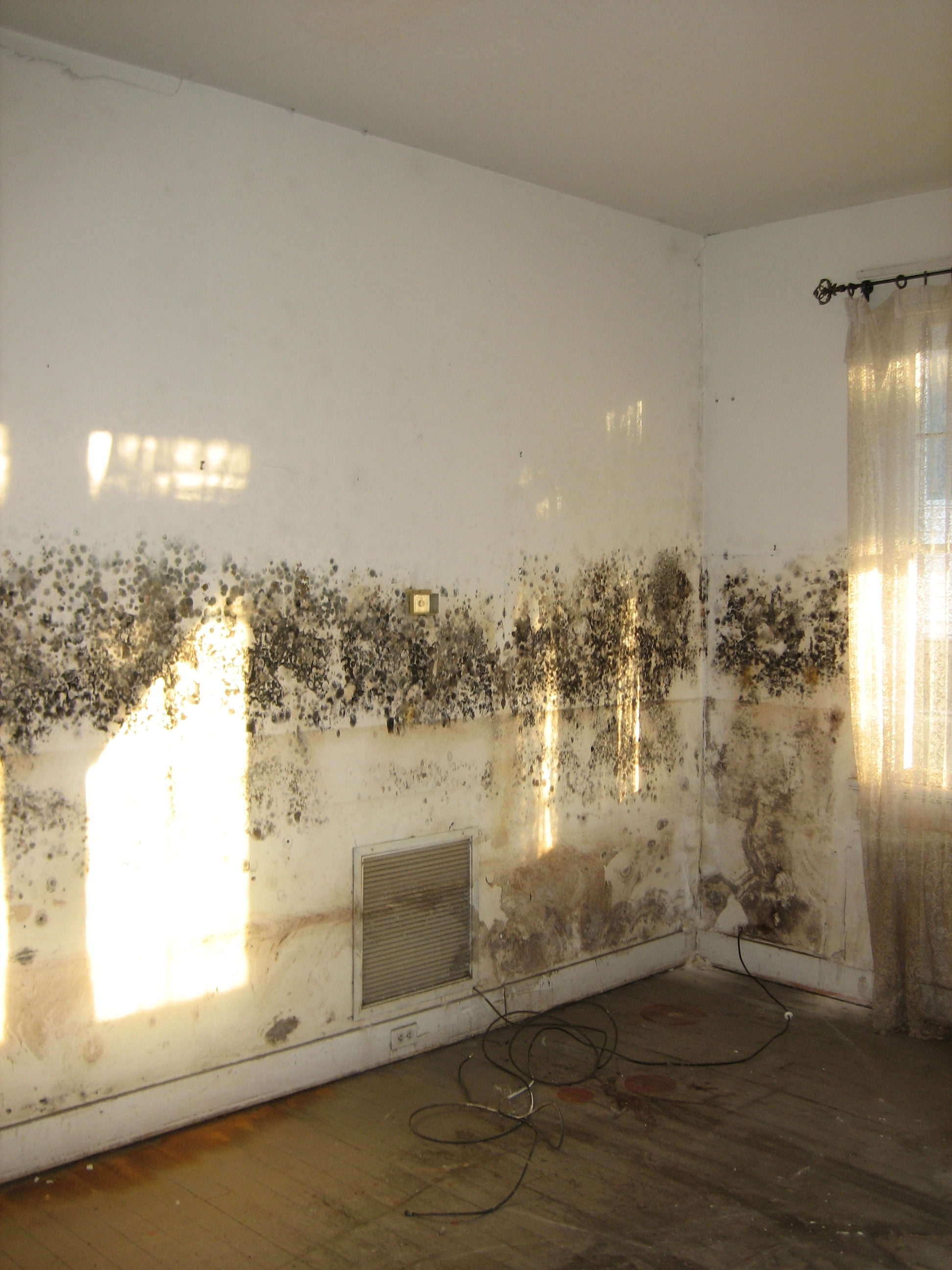 New Orleans after Hurricane Katrina: Mold in flood damaged home